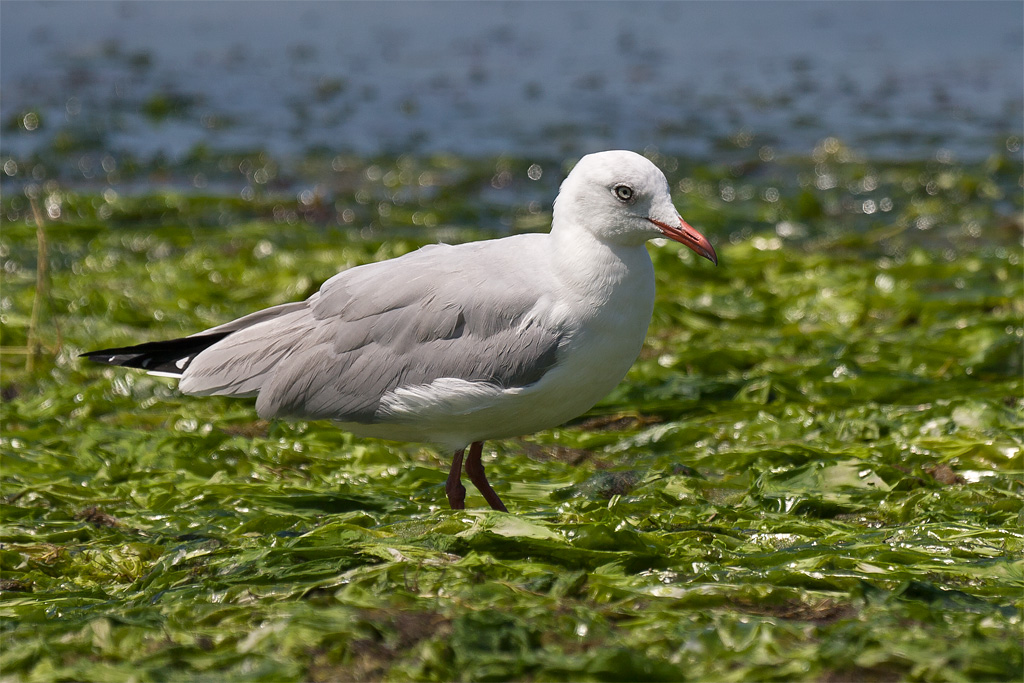 The Grey-headed Gull photographed in Peru.